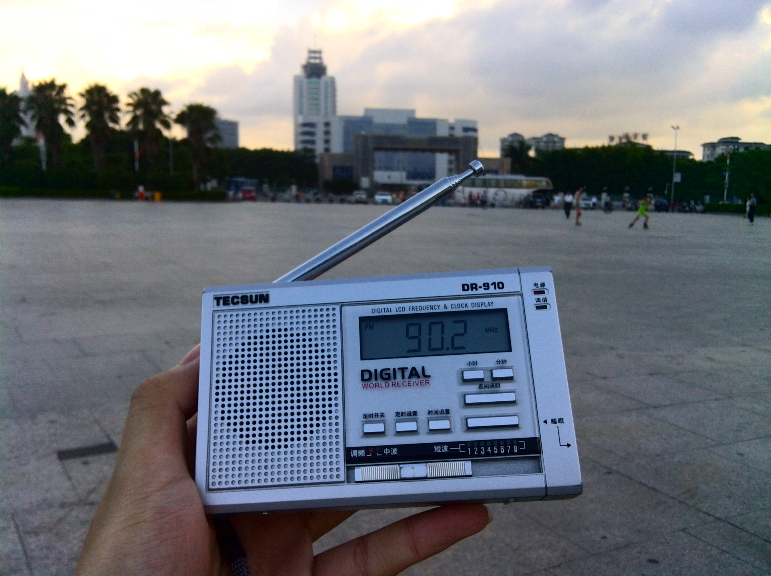 Tecsun DR-910 Radio in Chaozhou People Square.